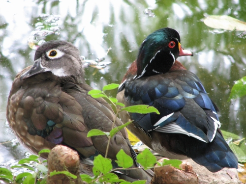 Wood Ducks.. Male and Female.. Own Work